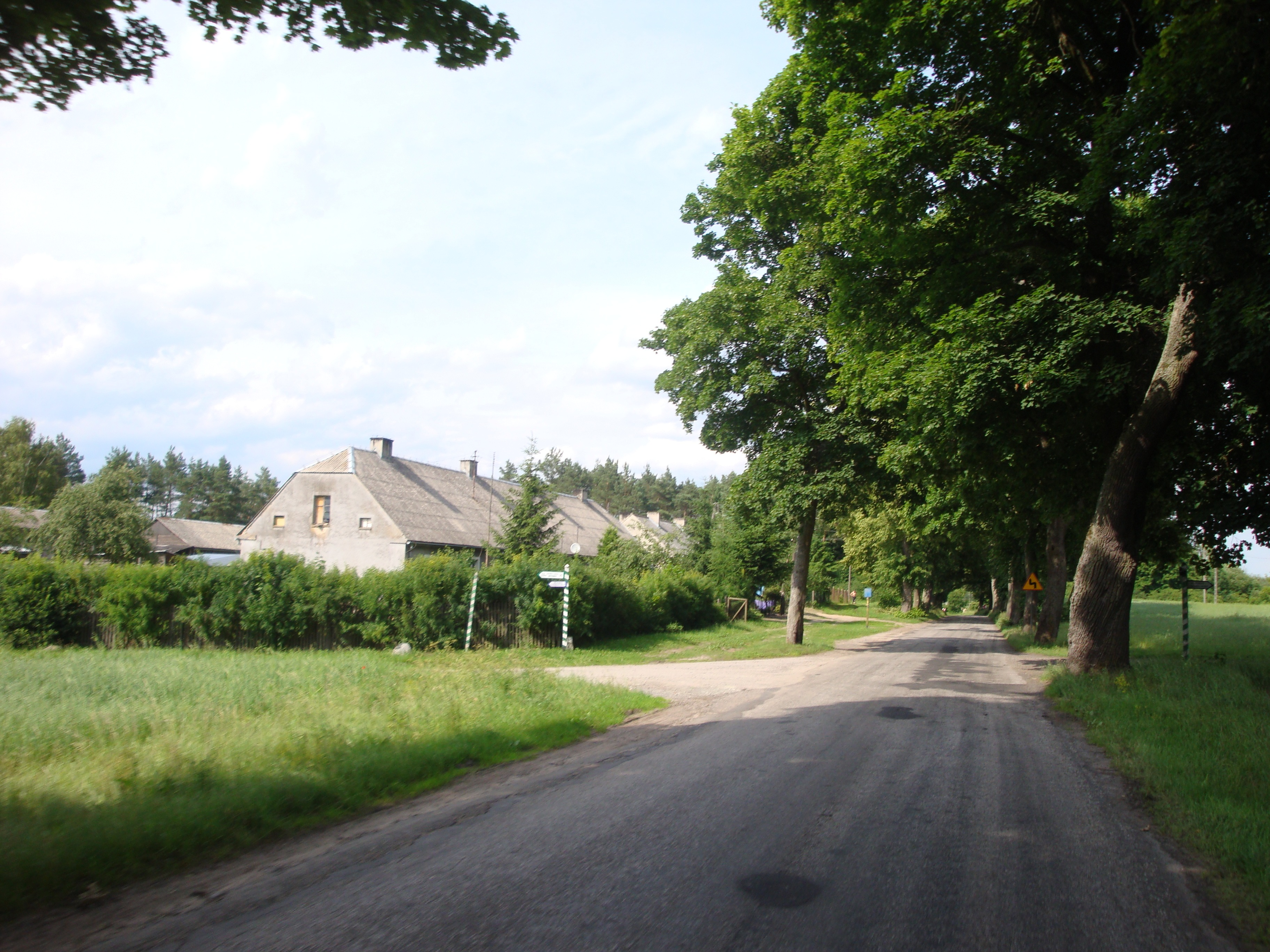 Spławie-village in Poland, Kuyavian-Pomeranian Voivodeship.